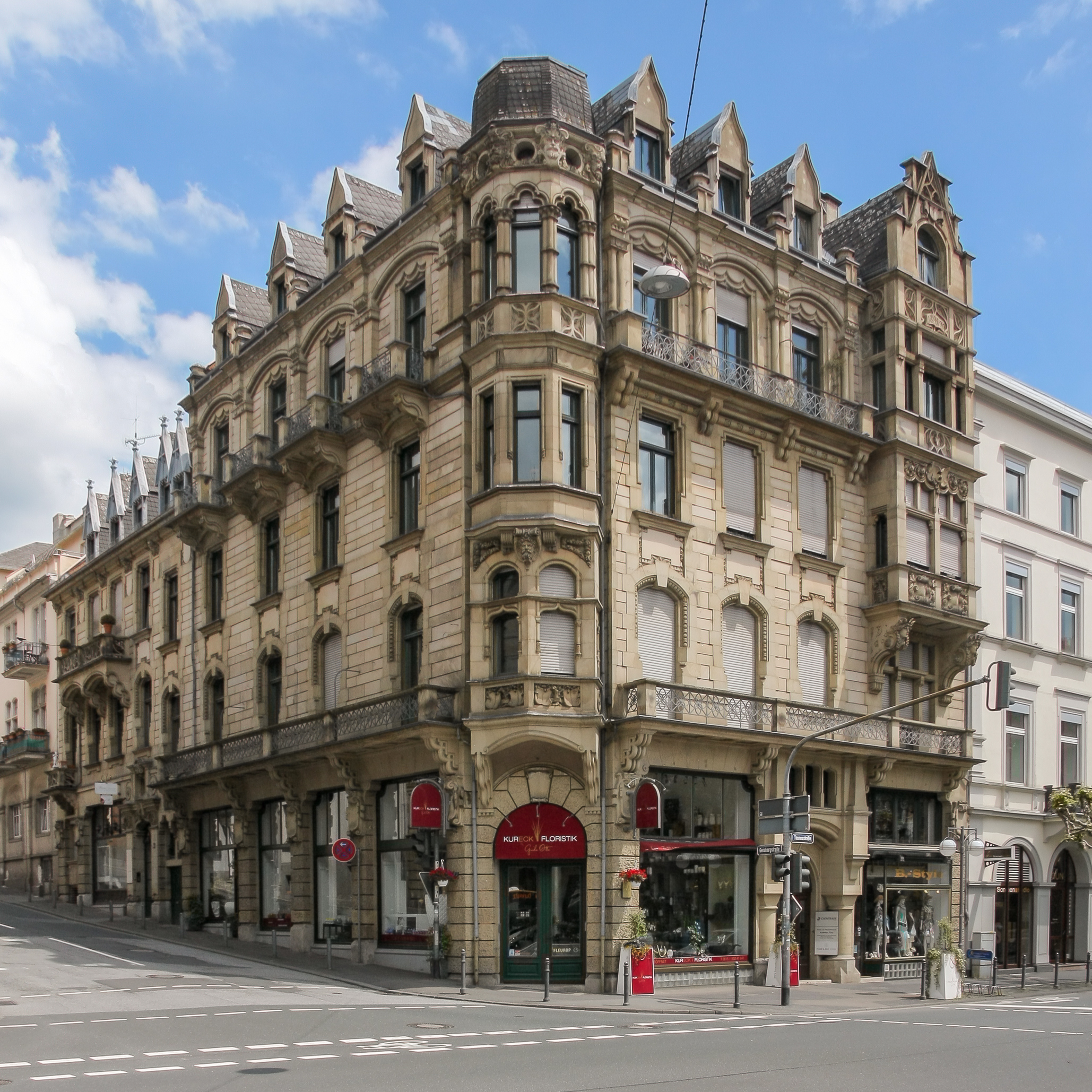 Taunusstraße 11, Wiesbaden, Former headquater of the Combined Airlift Task Force (CALTF)